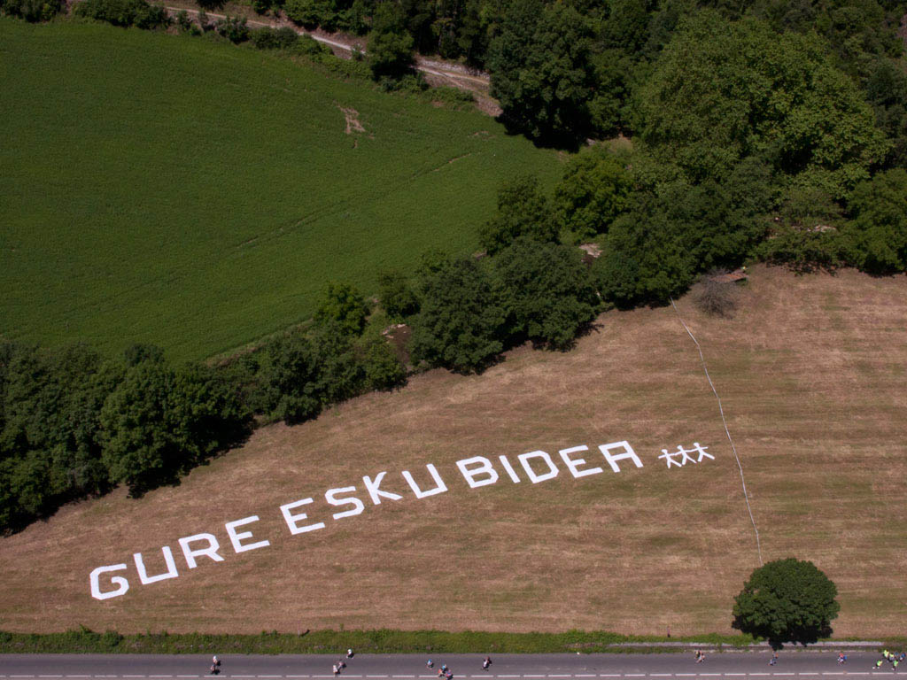 2014 Human Chain for The Right To Decide of the Basque Country